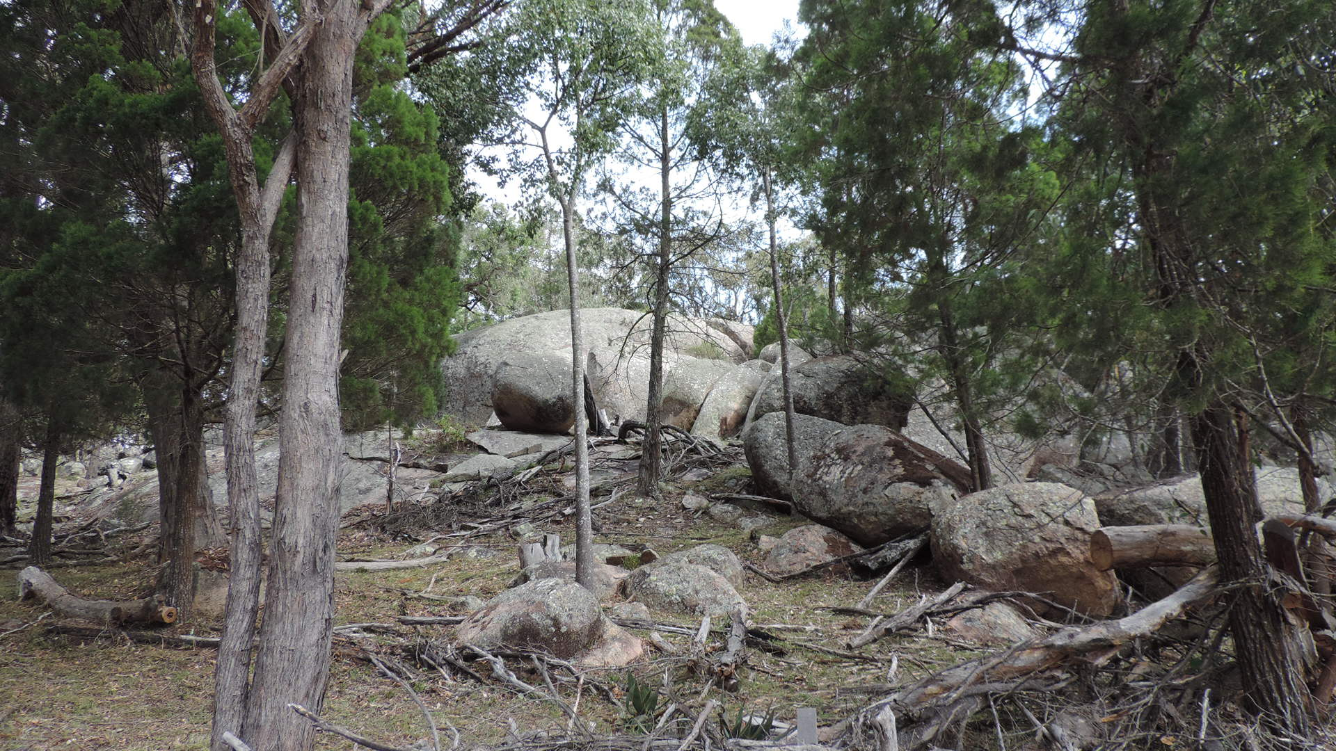 Granite outcrops beside St Denys Anglican Church, Amiens, 2015